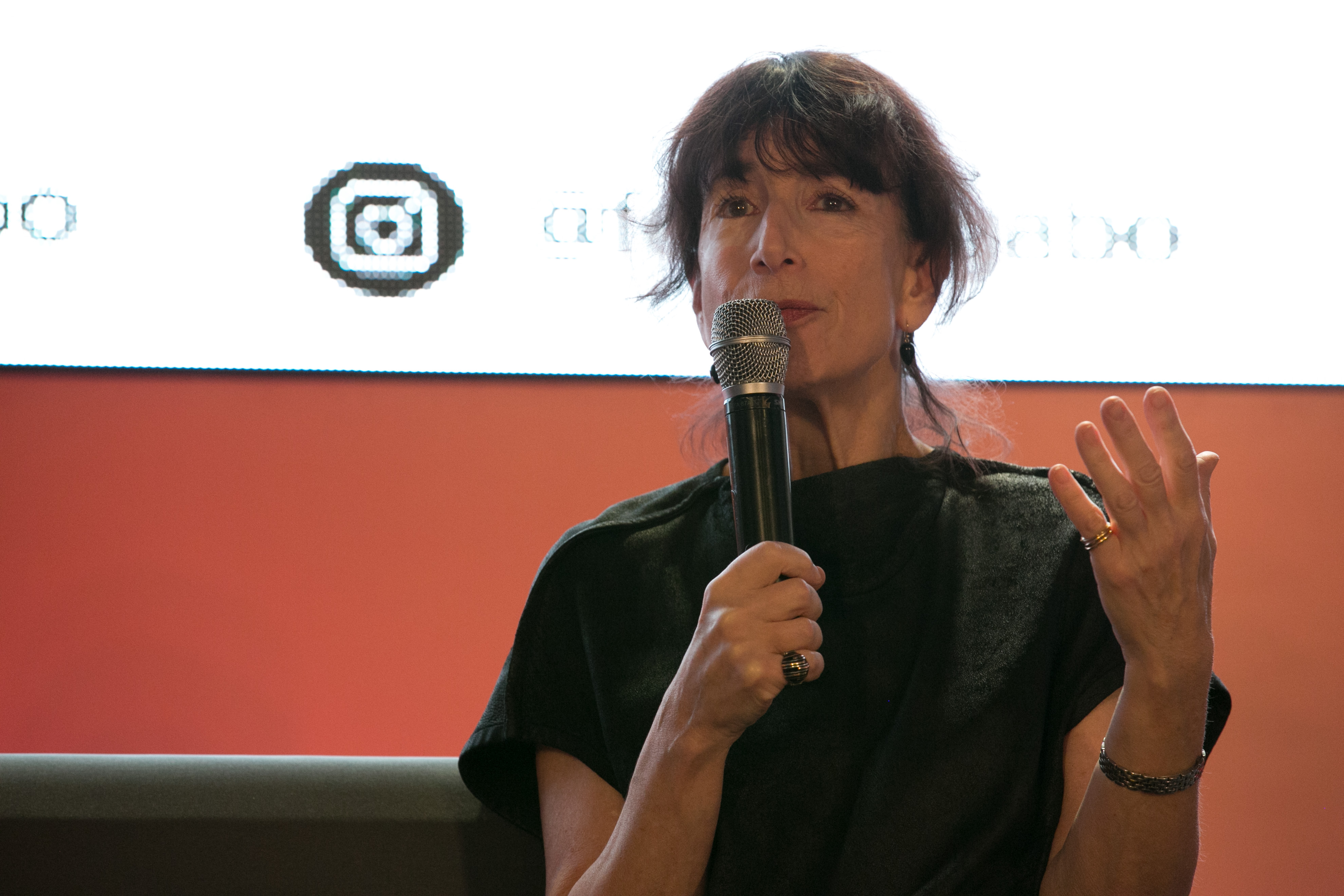 Judith Thurman